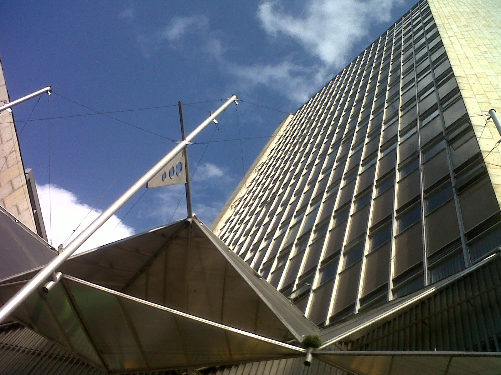 Edificio Banco Agrario de Colombia